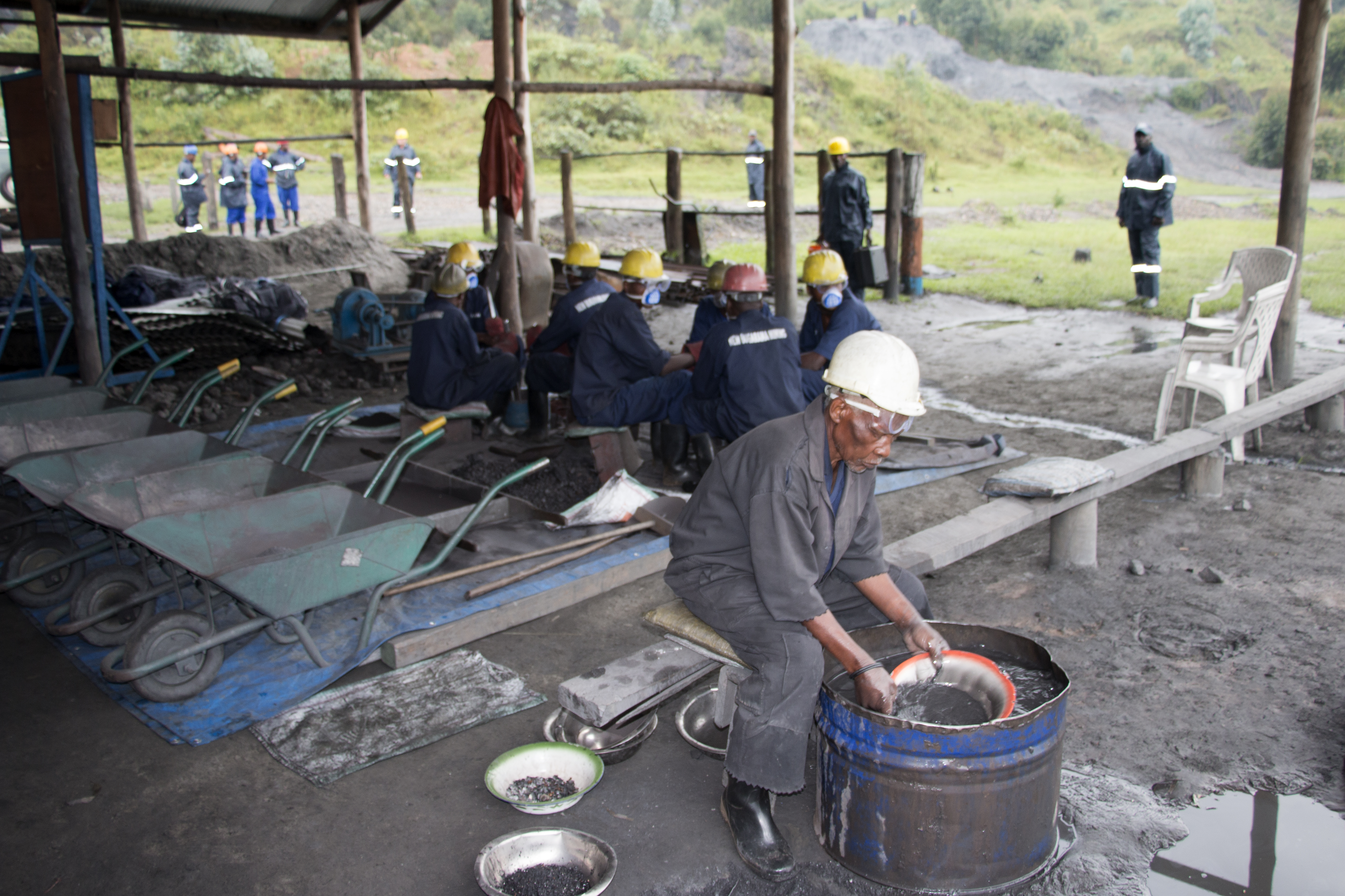 Washing and grinding